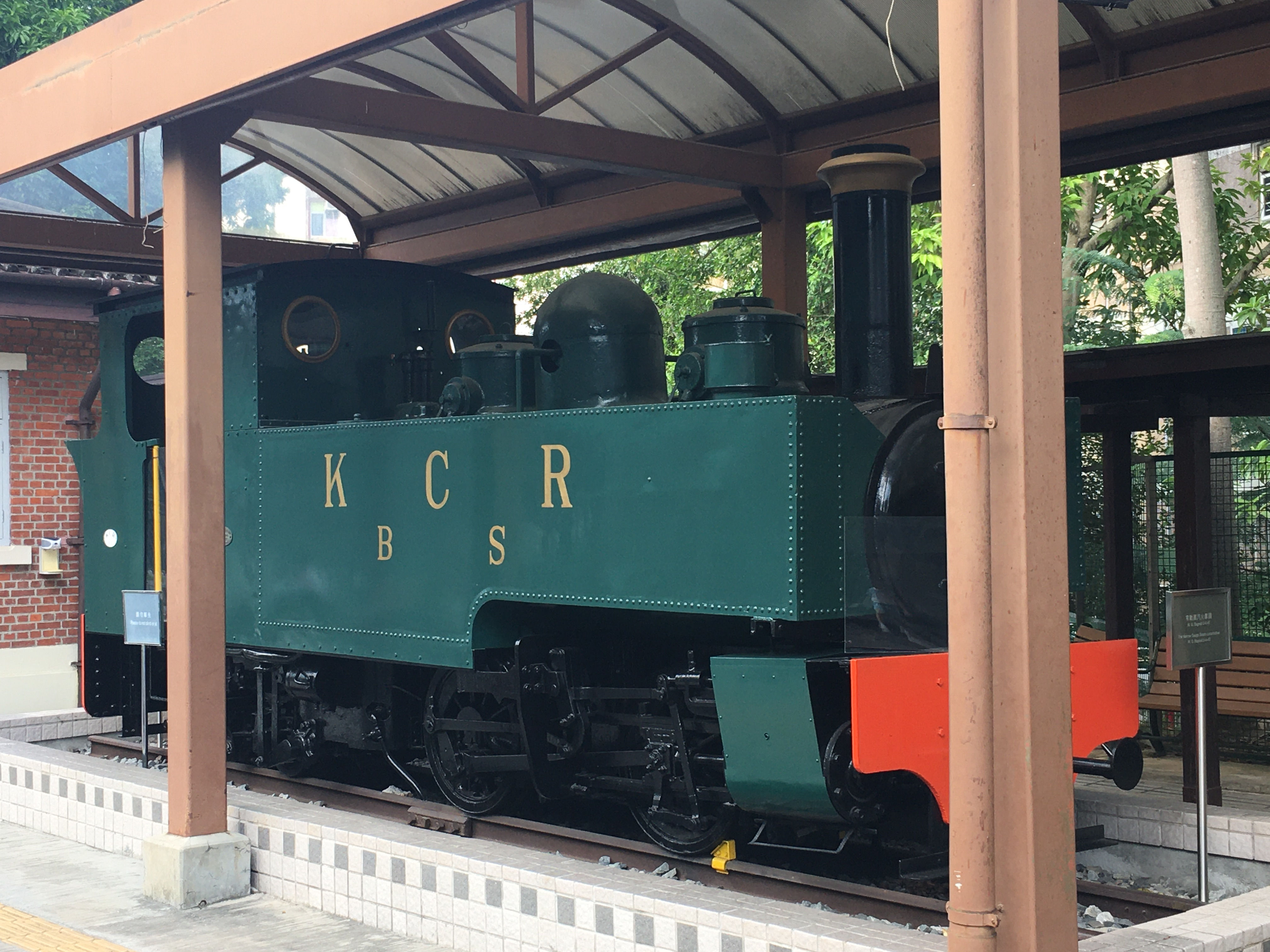 中文（香港）: This photo is taken in Tai Po.